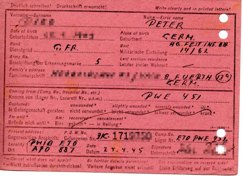 card of capture of prisoners - backside